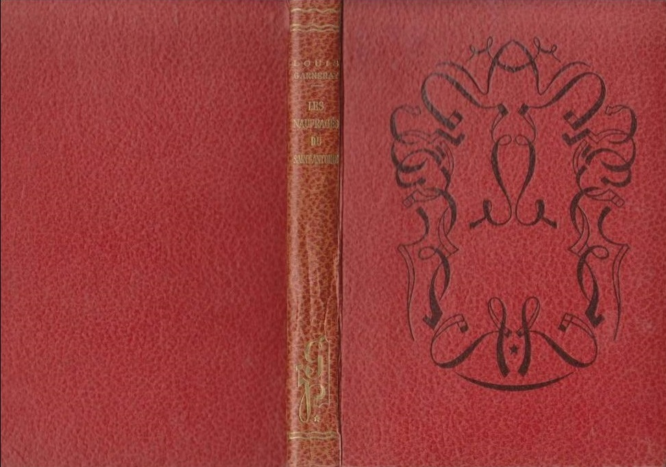 Les Naufragés du Saint Antoine by Ambroise Louis Garneray Rouge et Or